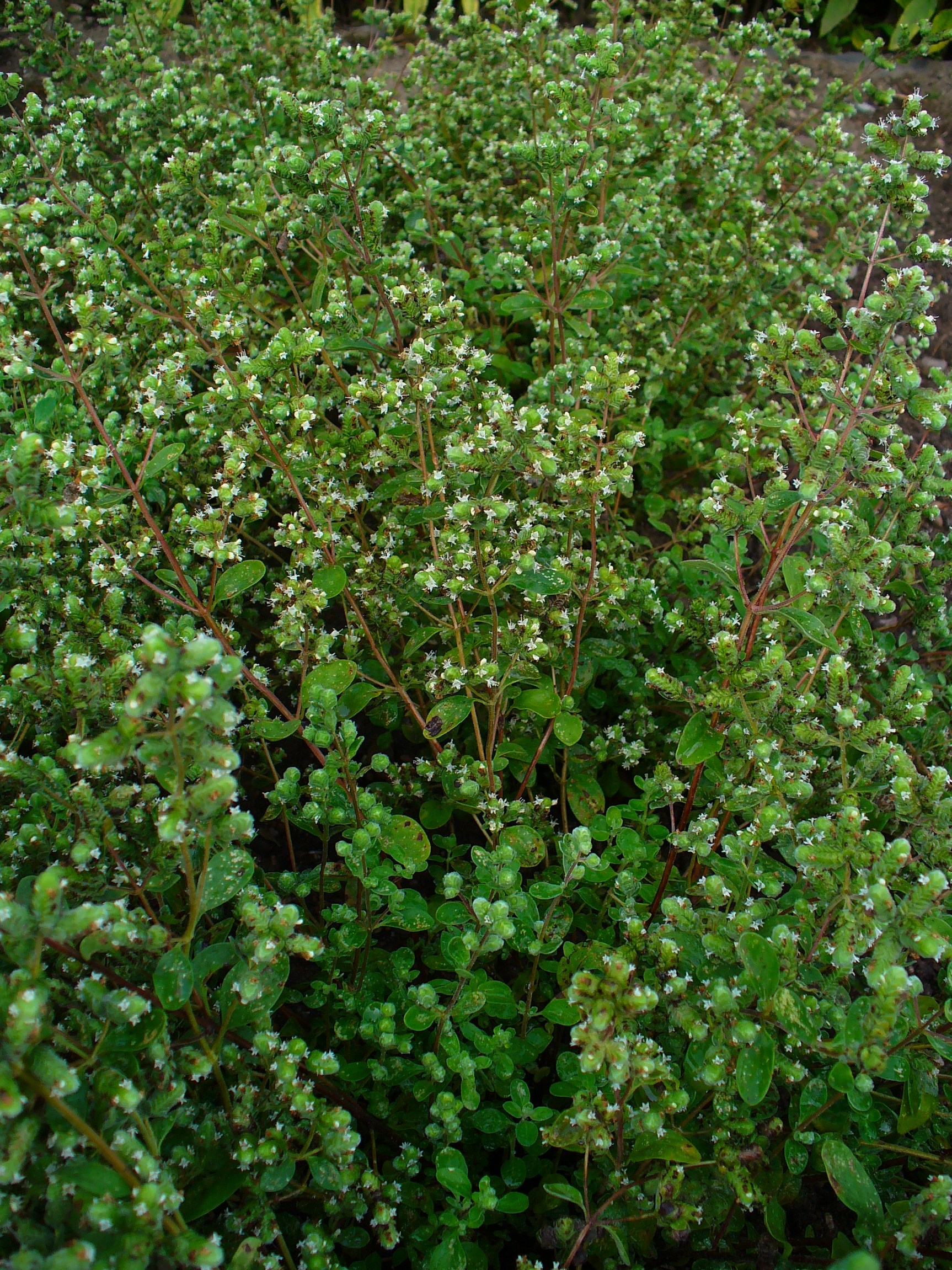 Origanum majorana, Lamiaceae, Marjoram, habitus. Botanical Garden KIT, Karlsruhe, Germany.